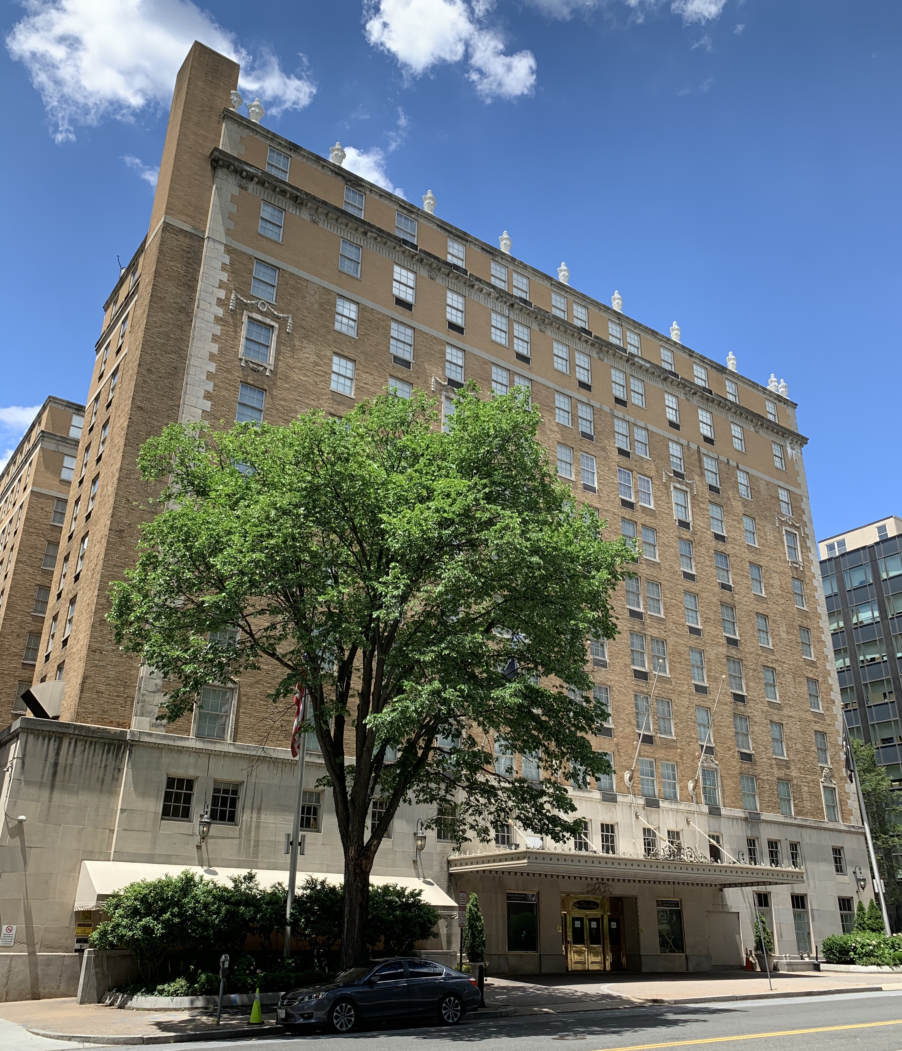 Rear entrance of the Renaissance Mayflower Hotel in Washington, D.C.